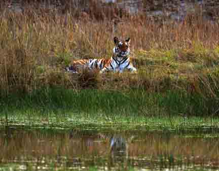 Captan Suresh Sharma and I just returned from three day trip to Bandhavgarh National Park, Madhya Pradesh. The National Park, formally established in 1968 was the hunting reserve of the erstwhile rulers of Rewa. Spread over an area of 108 Square KM in the core area and a buffer zone of nearly 500 Sq.KM, this tiger reserve is famous for its large population of tigers. Though the Park has a rich variety of fauna, tigers remain the main attraction. This Park has the greatest density of tigers in India. In summers, the visibility of tigers become more on account of the drying up of seasonal water sources. A few water holes available attract prey and the hunter and of course photographers willing to brave the sweltering summer heat of India. The small village of Tala where the main gate is situated has a number of hotels and lodges catering to all tastes and purses. Our stay at Nature Heritage (aslo known as Agra Lodge) was very comfortable and lucky. In three days we had over 15 sighting of tigers. As many as 60 species of birds and 12 of wild animals were also seen